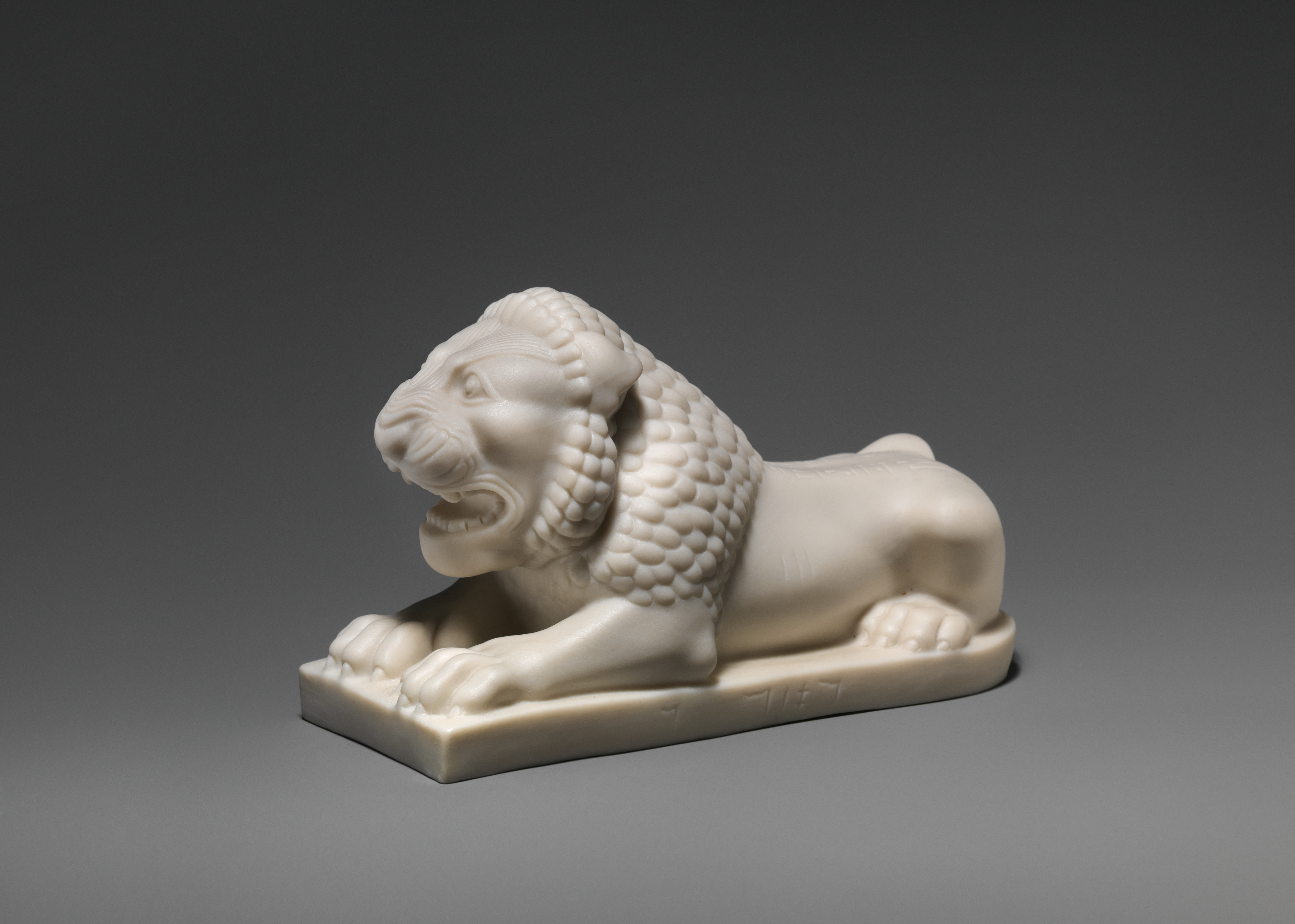 British; Figure; Ceramics-Porcelain